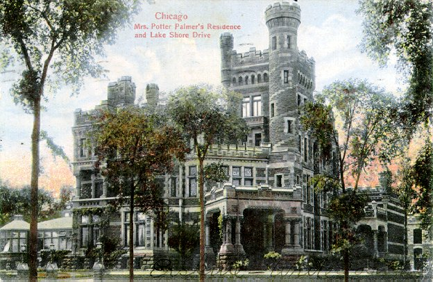 A postcard of the Palmer Mansion in Chicago, Illinois. The mansion was demolished in 1951.